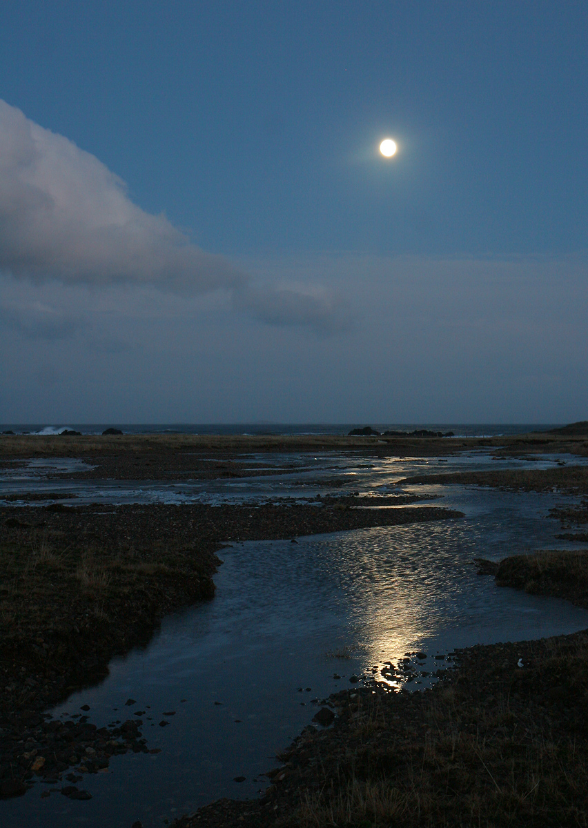 Northeast to the Atlantic, near Þvottá, Álftafjörður. Papey island is barely visible in the distance. November 23 17:48 Iceland, November 2007 Photo by me user:debivort (or friend, with permission given to freely license photo).